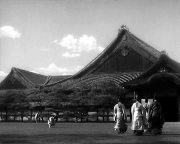 Screenshot from The Life of Oharu, 1952 film.